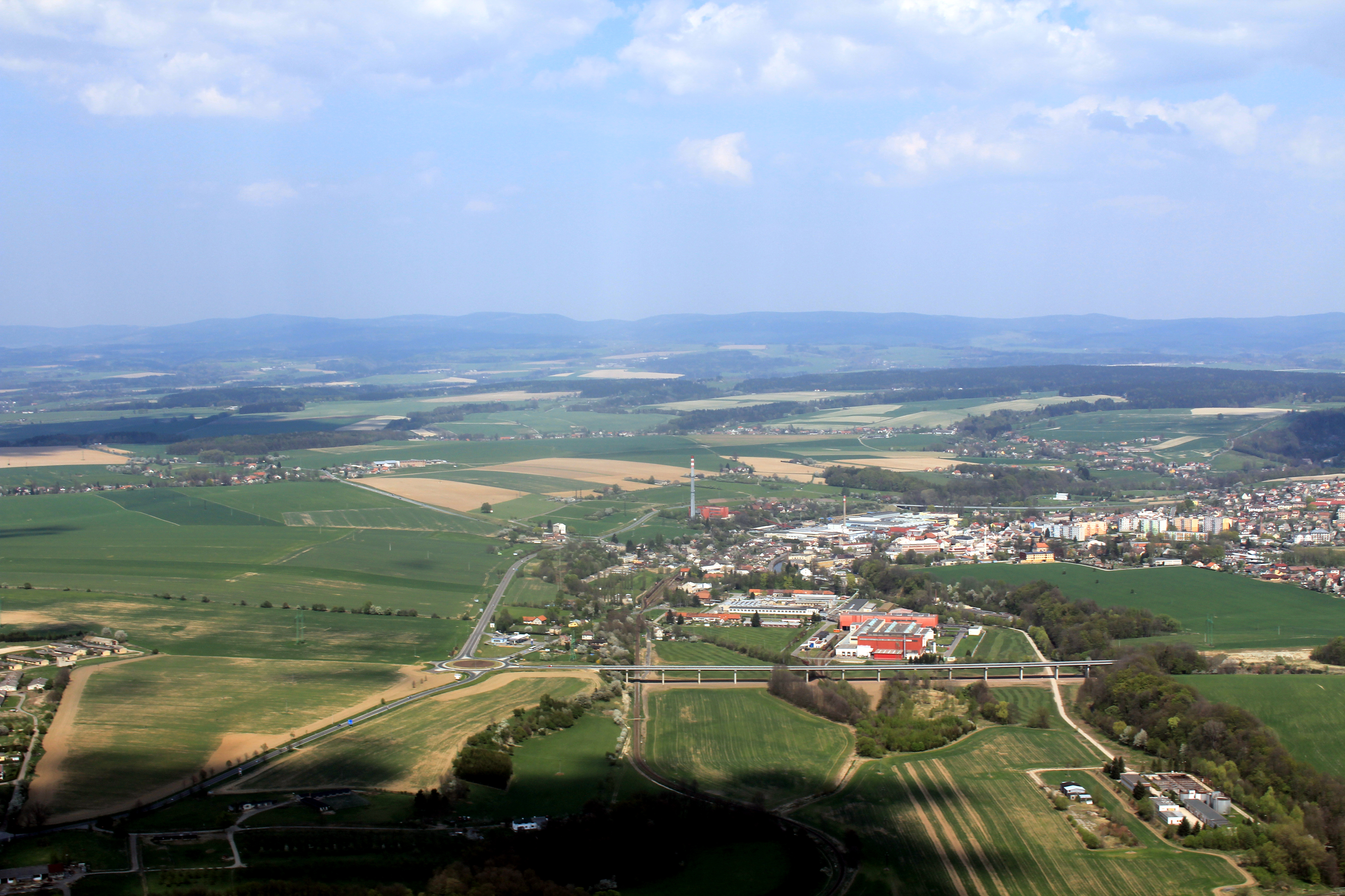 Small town Vamberk from air, eastern Bohemia, Czech Republic